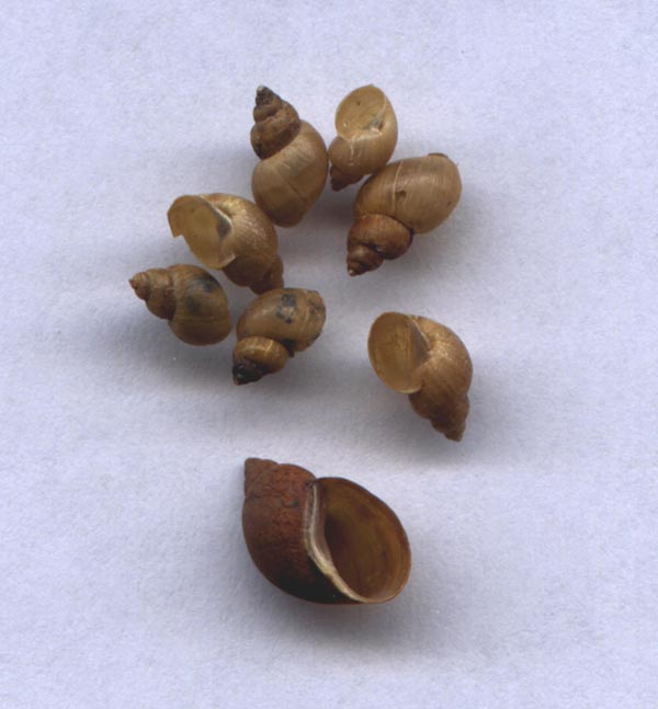 Freshwater snails Galba truncatula (up) and Radix peregra (down)